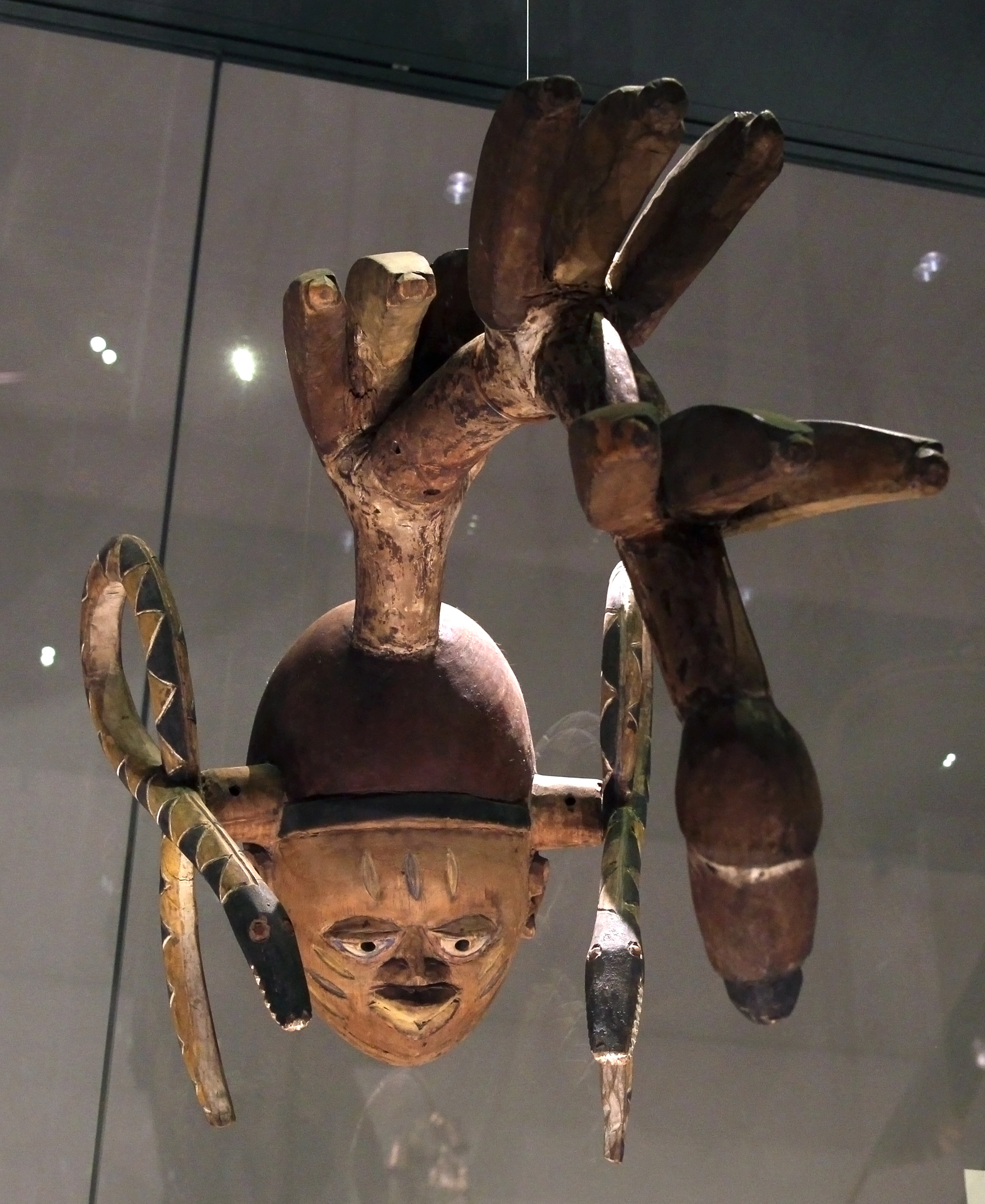 Gelede mask, wood and pigments, Yoruba people, Nigeria, 19th century. Room 25, British Museum.